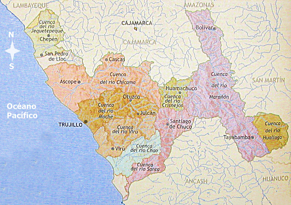 Valle de Moche o Santa Catalina